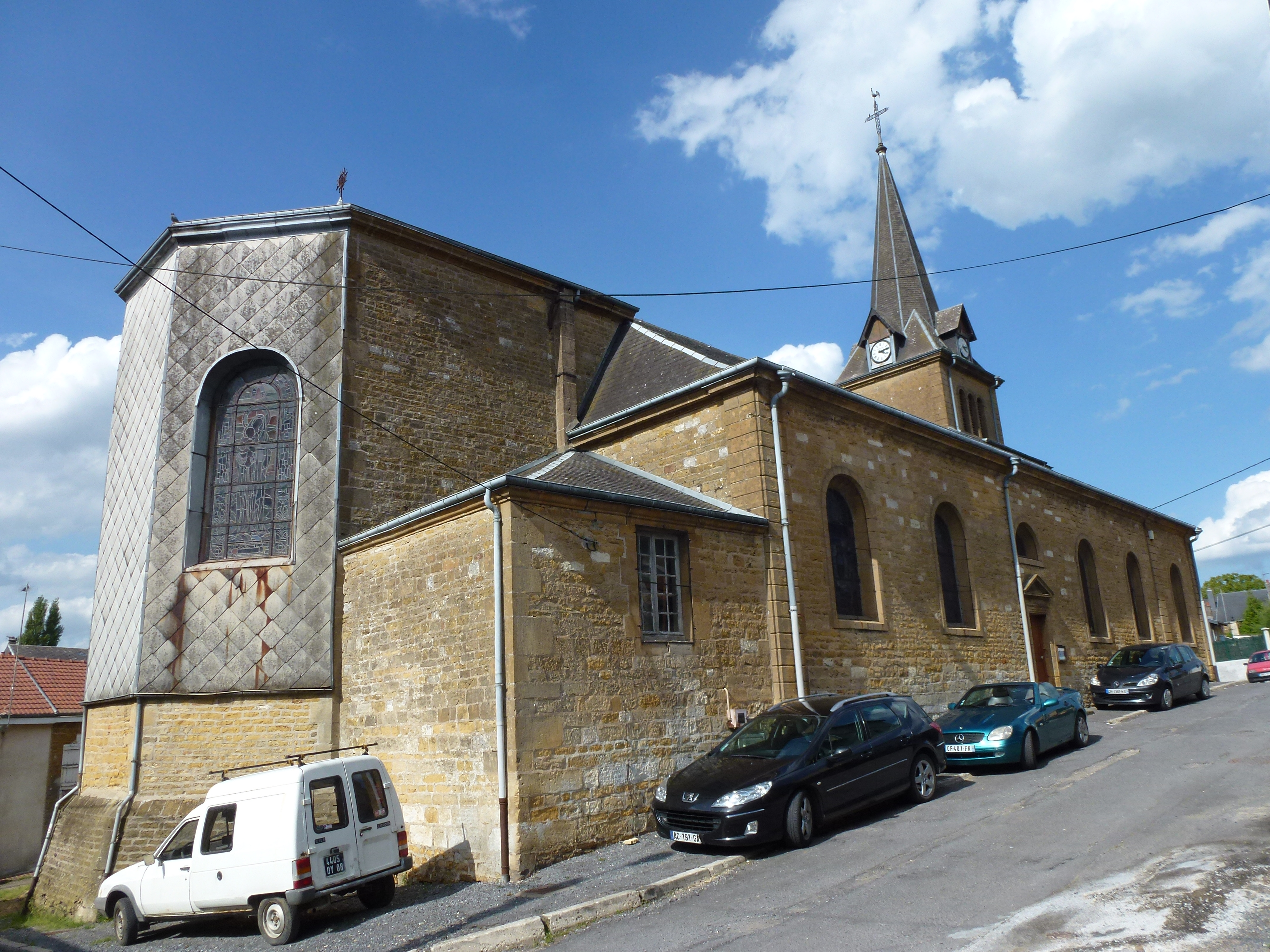 Boulzicourt (Ardennes) église